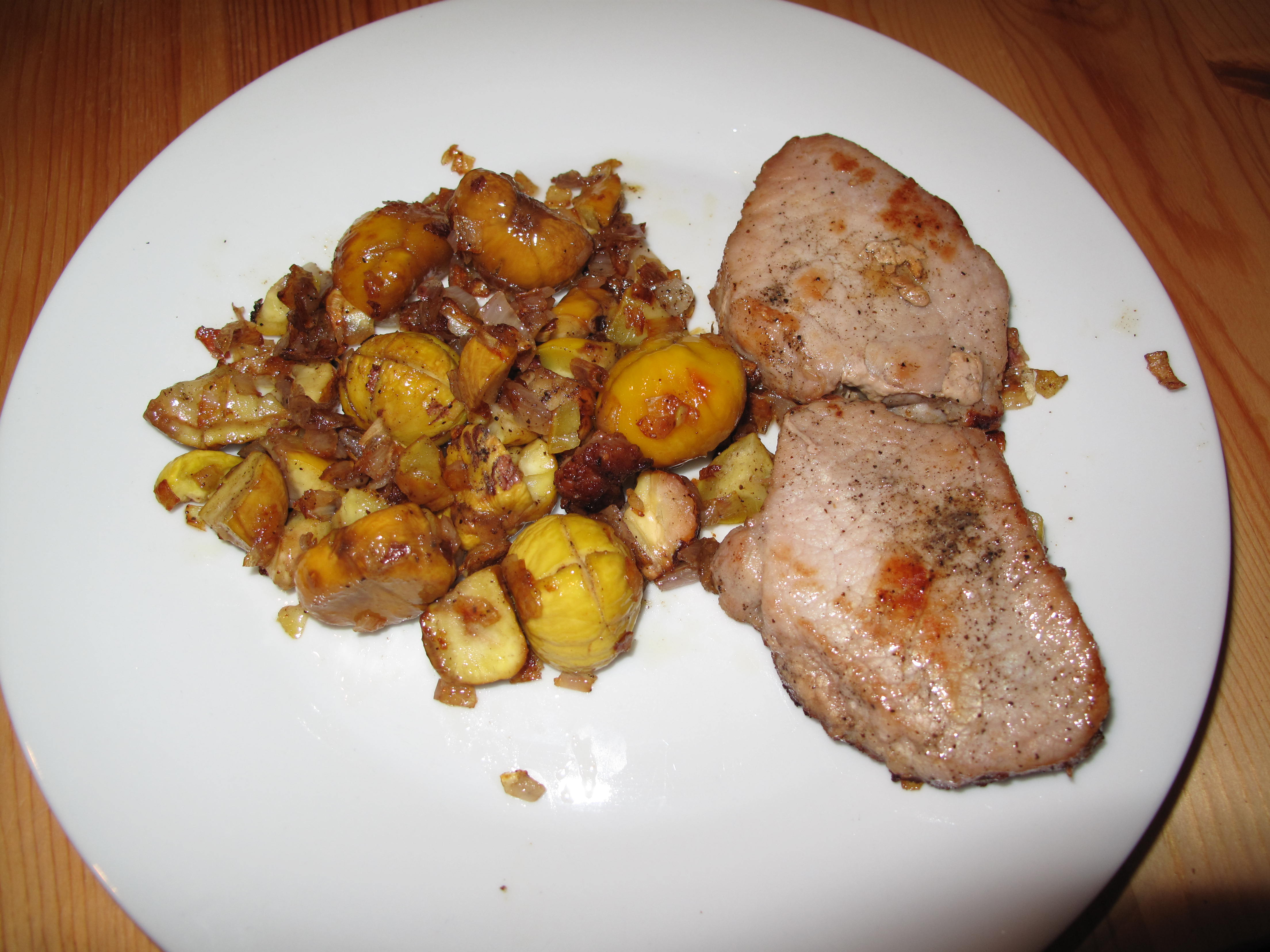 Fried pork, chestnuts on shallot